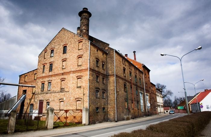 brewery